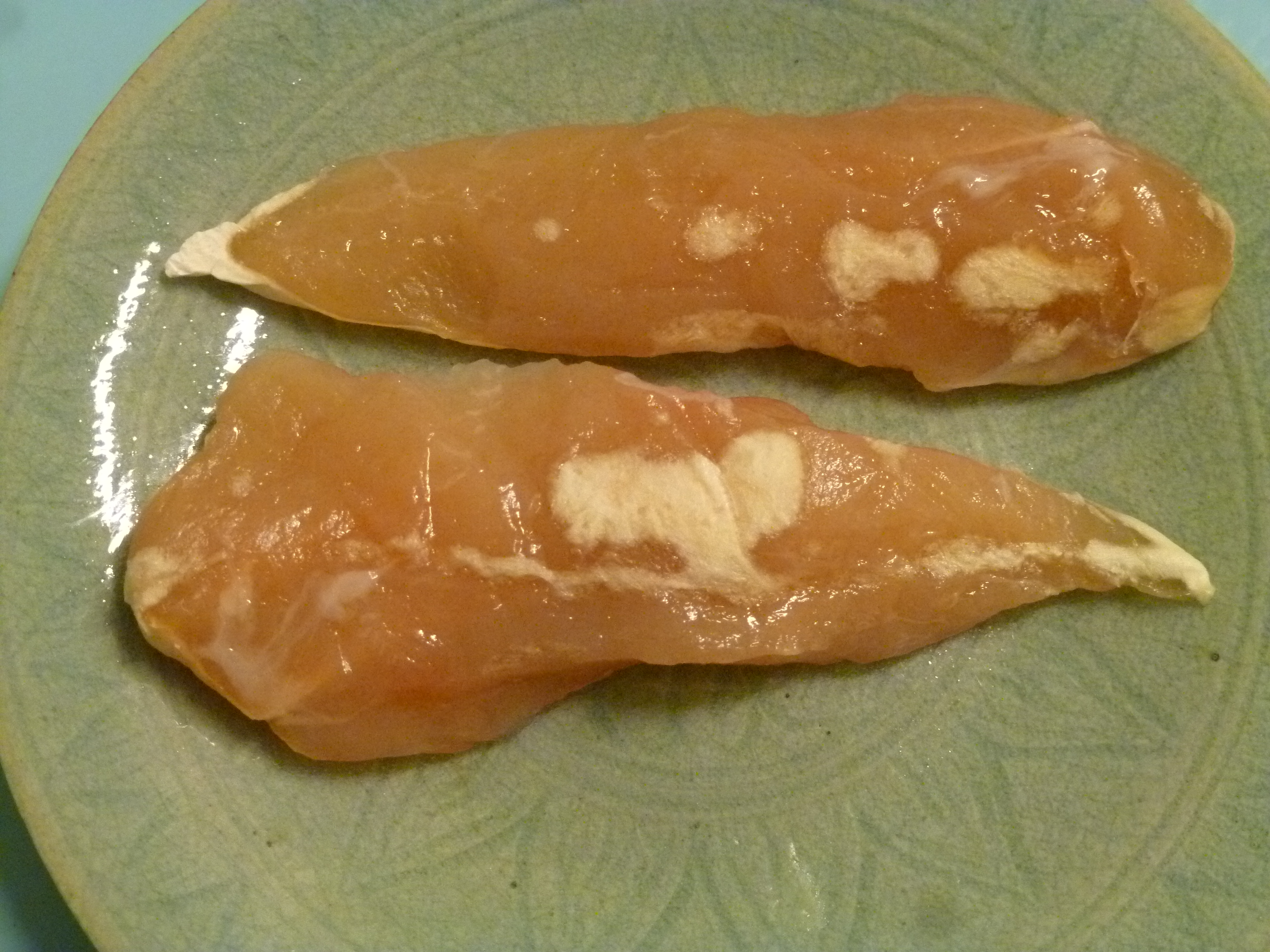 Freezer burn of poultry meat